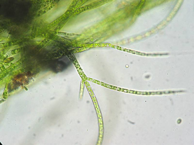 This work is free and may be used by anyone for any purpose. If you wish to use this content, you do not need to request permission as long as you follow any licensing requirements mentioned on this page.